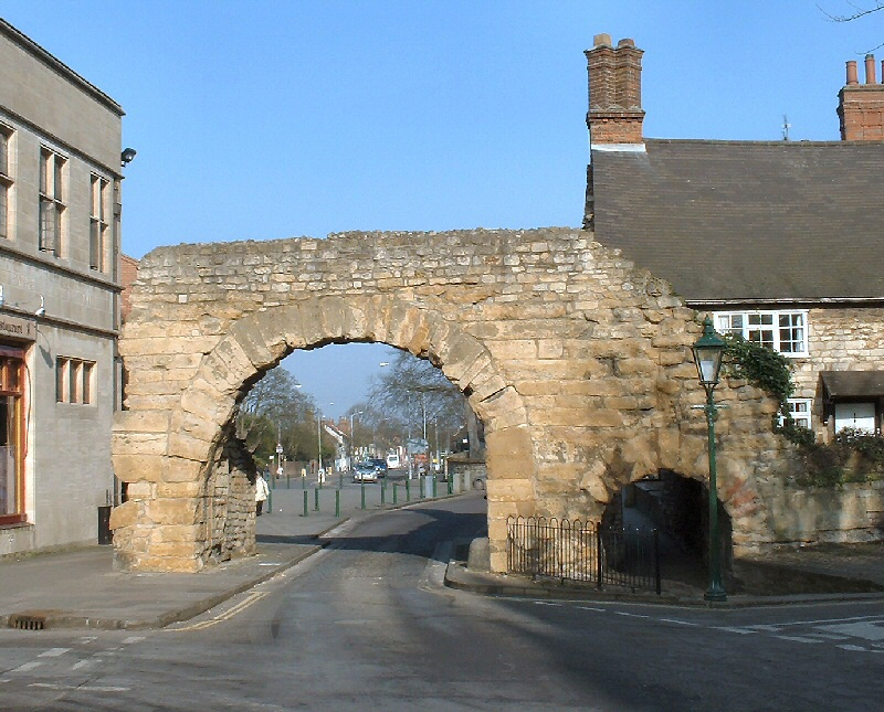 Lincoln, Roman Gate